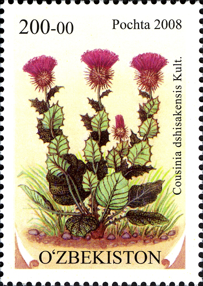 Stamps of Uzbekistan, 2008